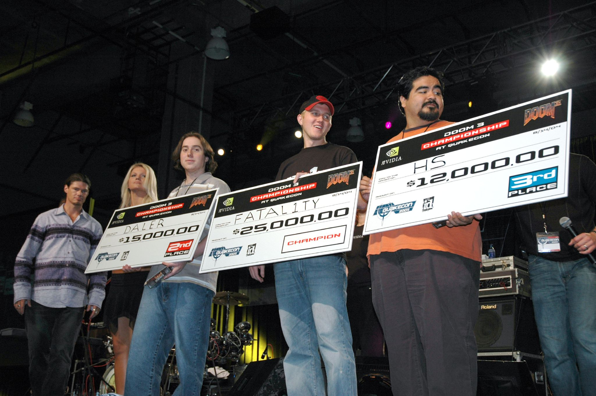 The winners at QuakeCon 2004 got to hug the lovely VIA girls ... the huge cash prizes were also nice.